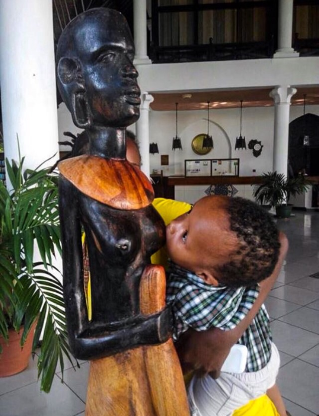 Caught on camera . Toddler suckling on a statue This is an image of Cultural Fashion or Adornment from Kenya